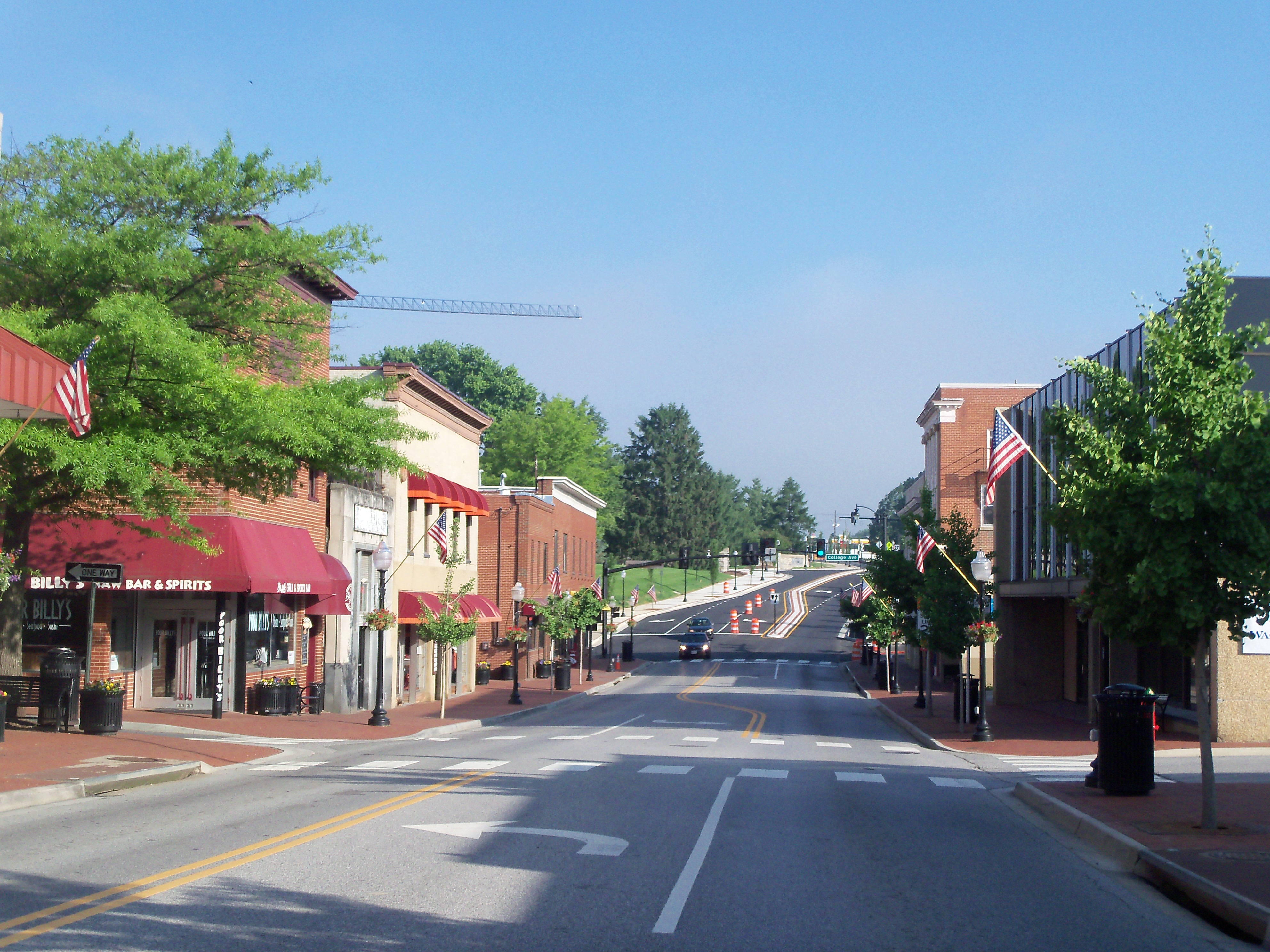 Downtown, Blacksburg, VA, USA